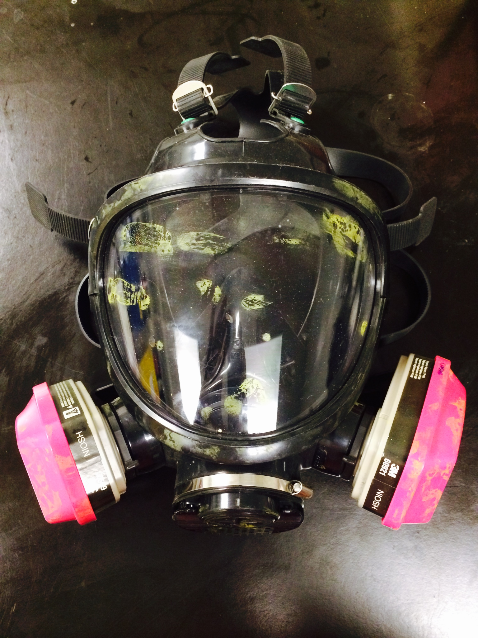 Gas mask